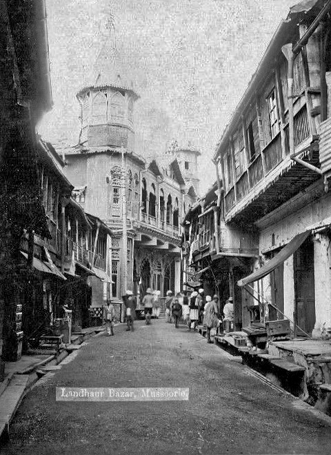 An 1890s albumen print view of Landhaur Bazaar in Mussoorie, Uttarakhand, India.